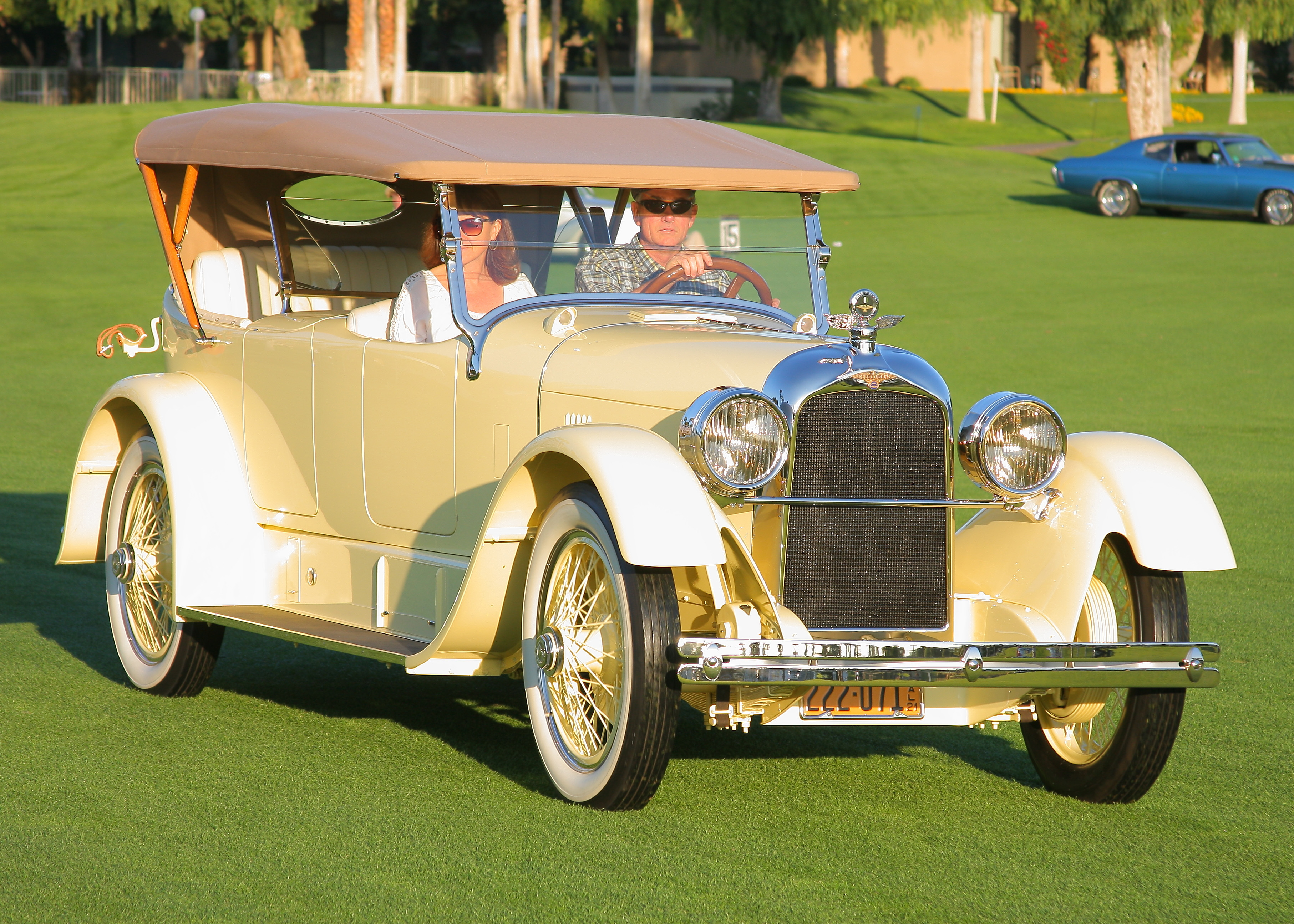 2014 Desert Classic Concours d'Elegance, Palm Springs, CA